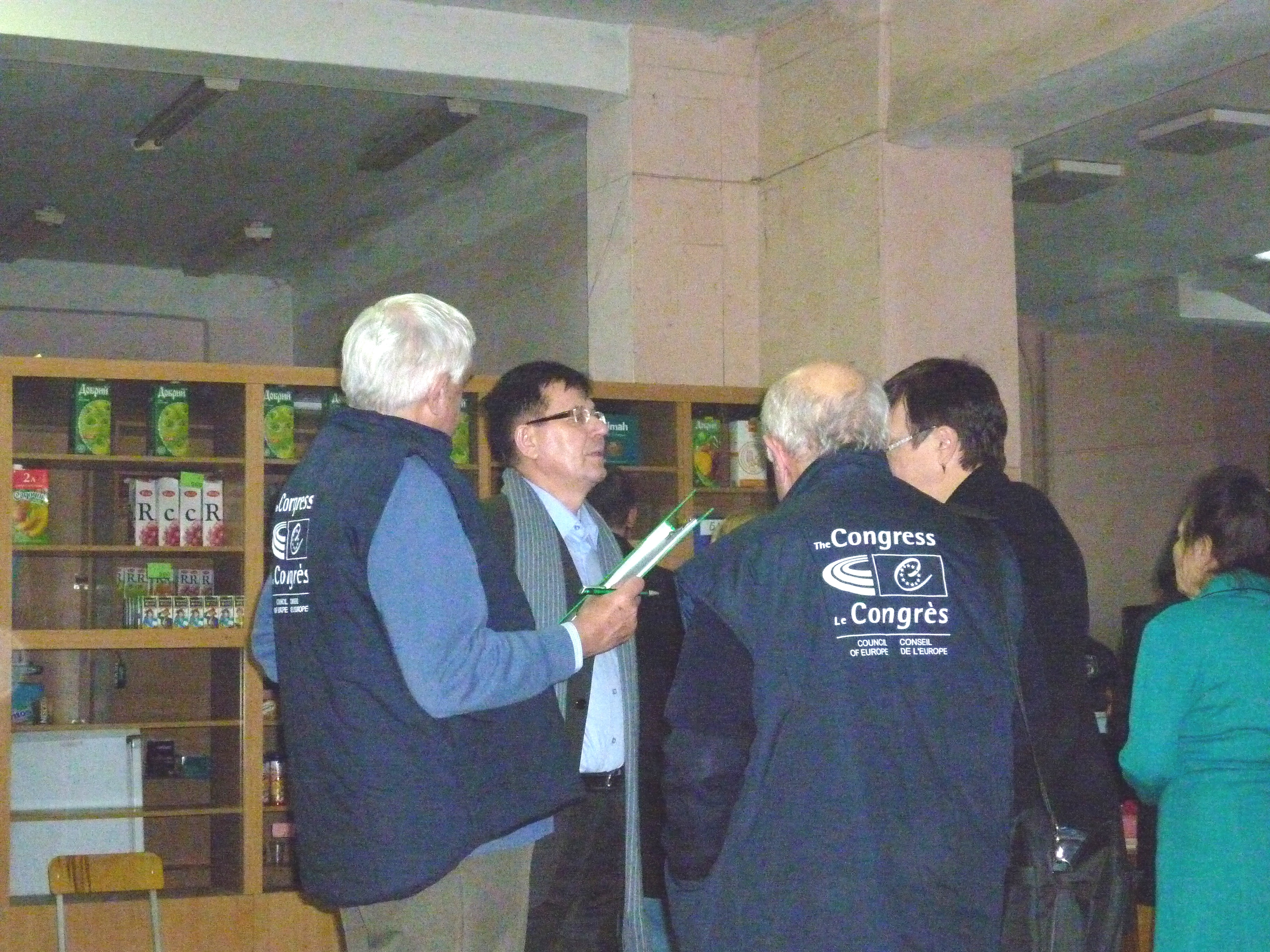 Election in Cherkasy 2010/ French observers